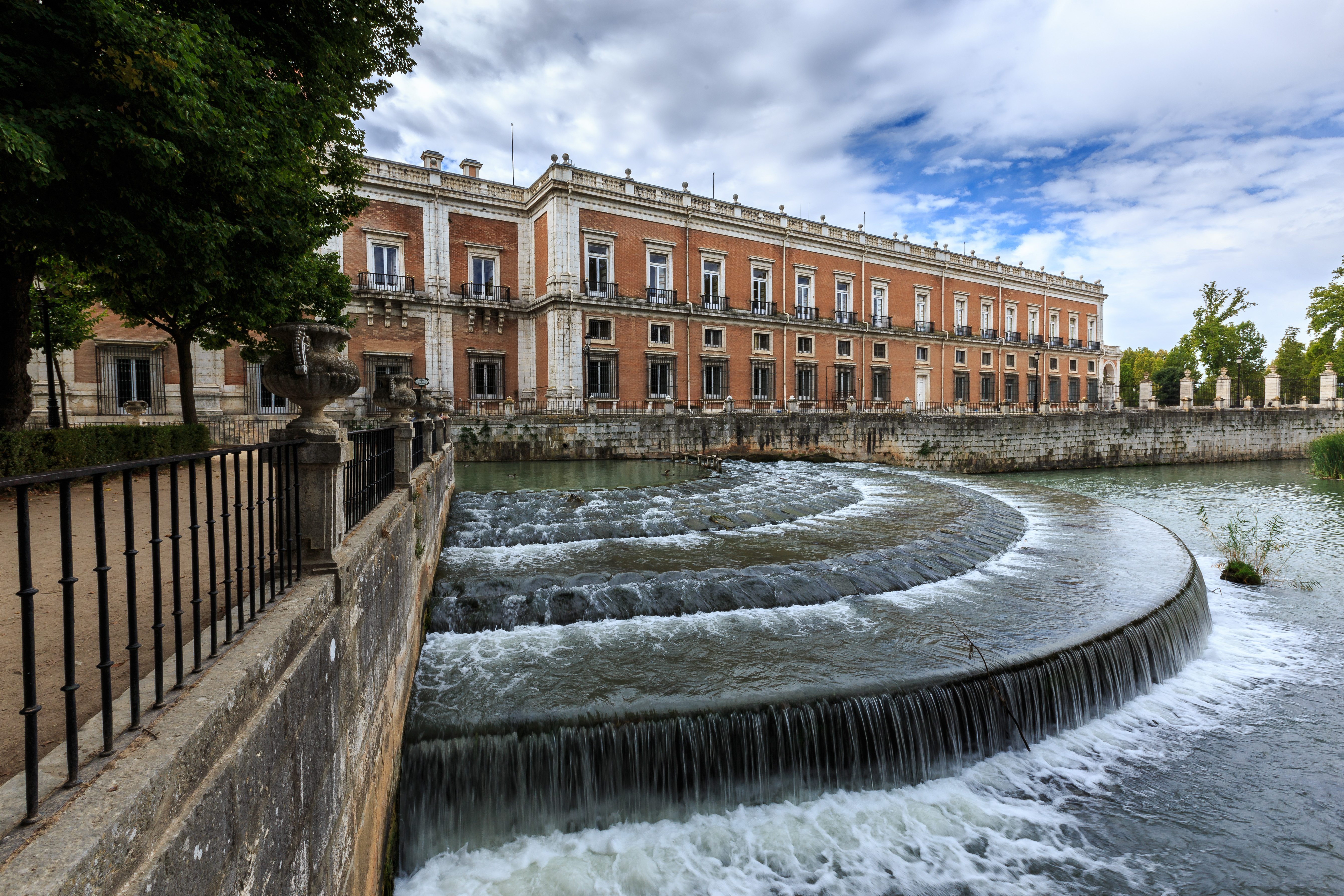 Royal Palace of Aranjuez